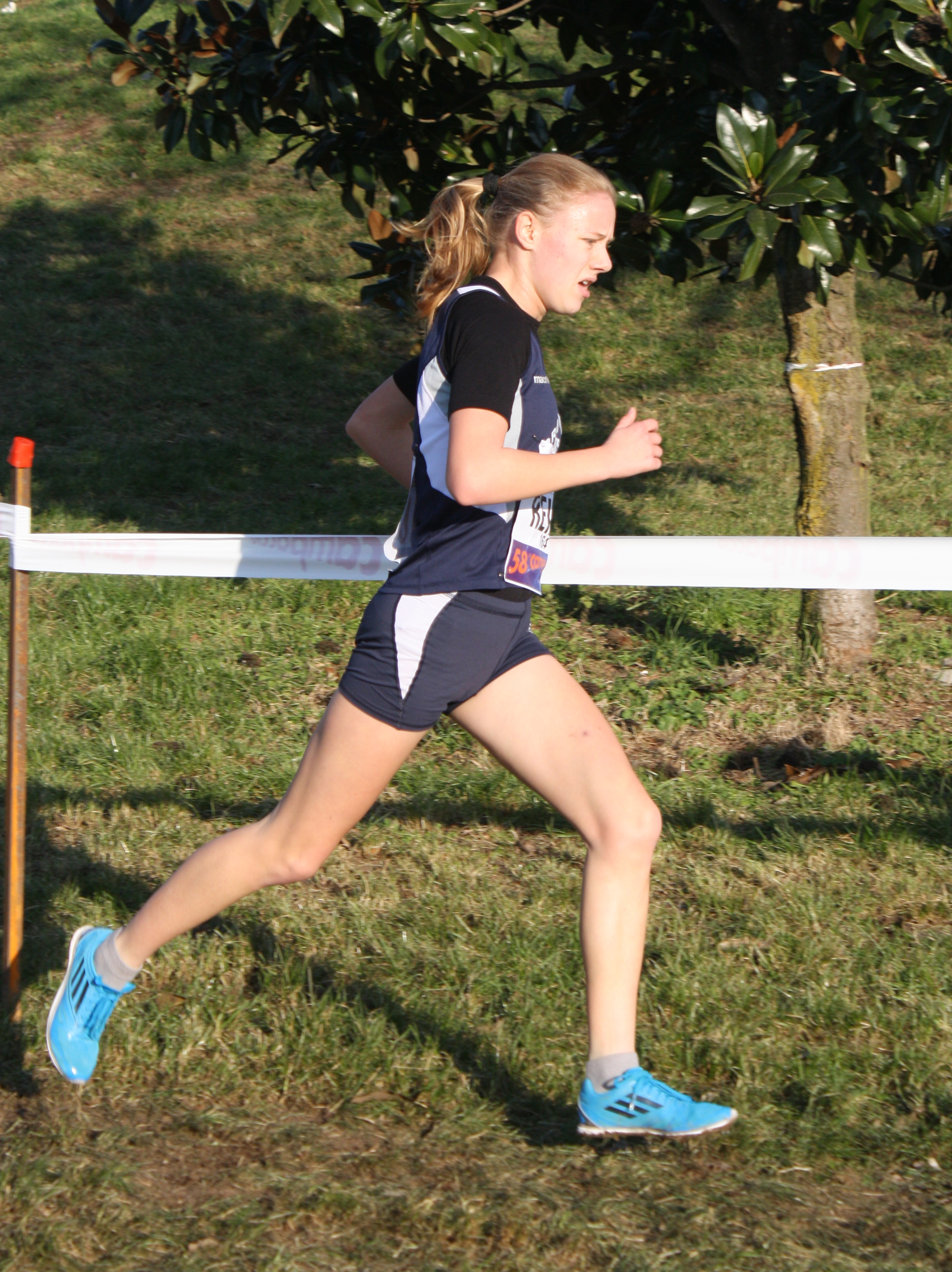 The Italian athlete Nicole Reina during the 58 th edition on the Campaccio.